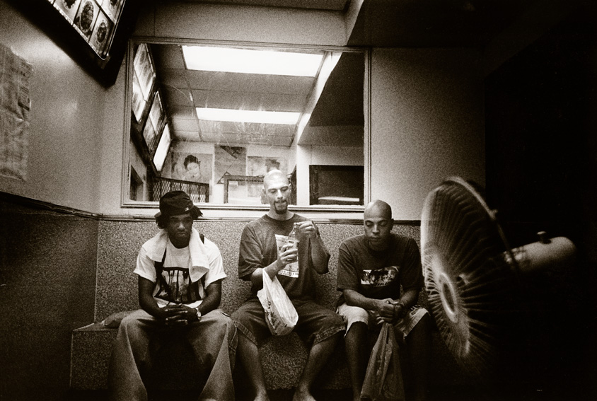 New York, Brooklyn, 2001